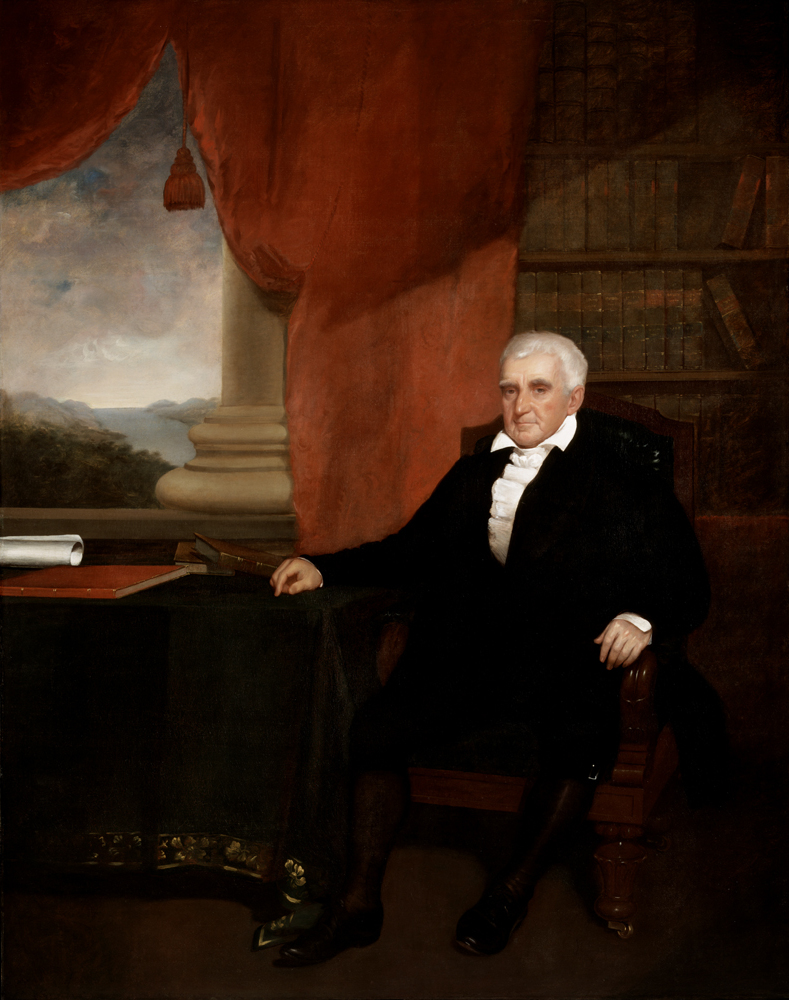 "Nicholas Brown (1769-1841)," oil on canvas, painted by Chester Harding. Courtesy of the Brown University Portrait Collection, Brown University, Providence, R.I.